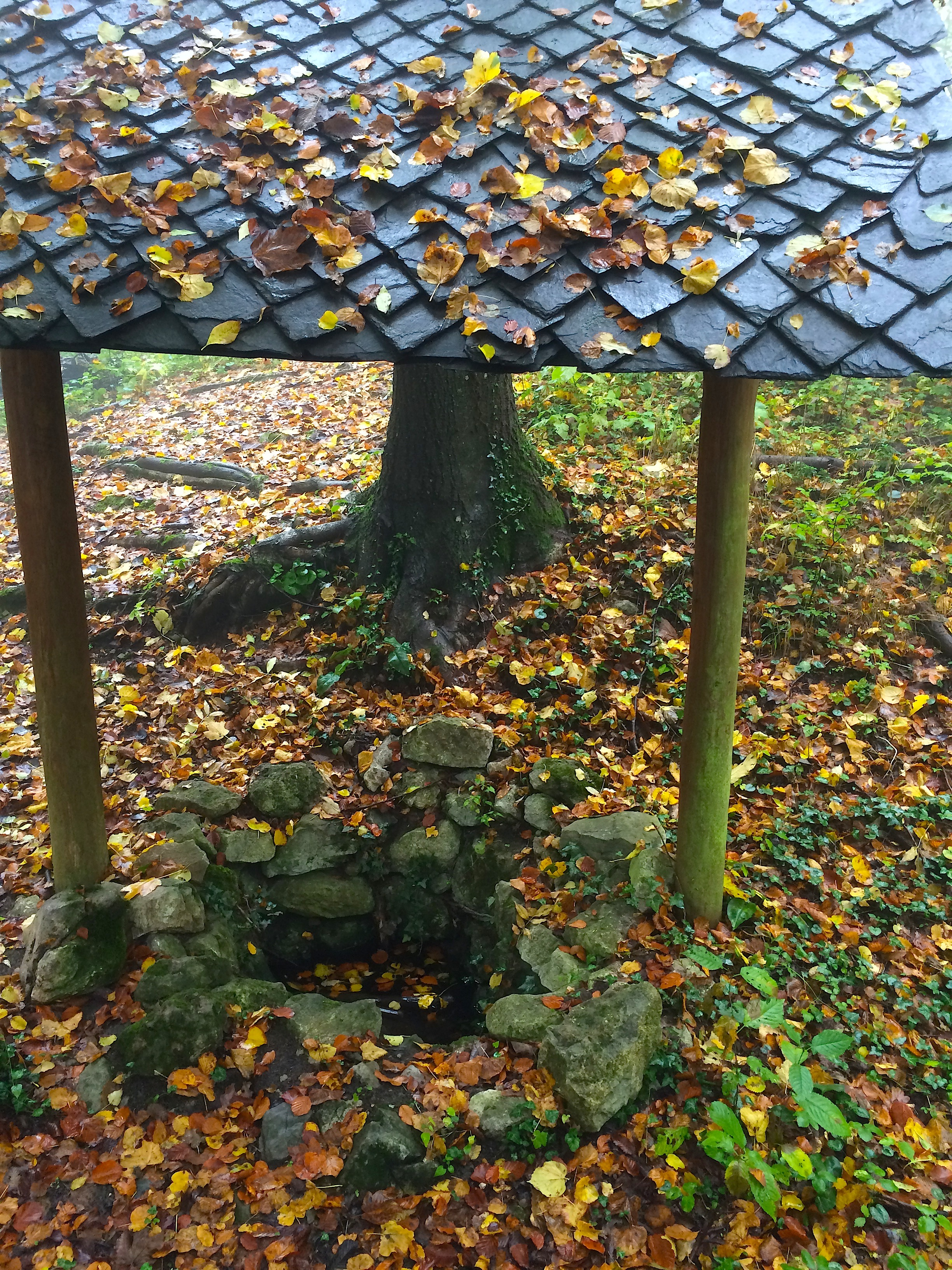 Caste well at Koprivnik castle ruins, Zg. Javorščica, Slovenia